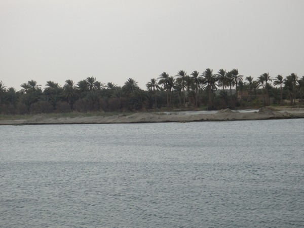 Euphrates river in Hillah in iraq